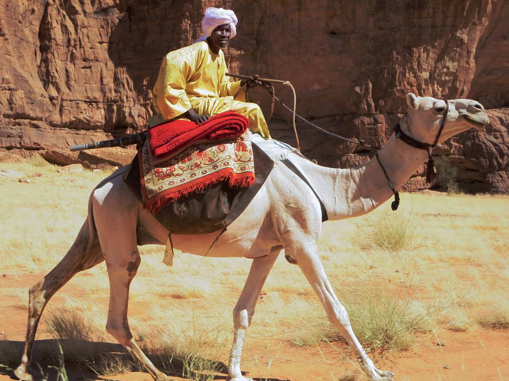 This Toubou man at Tokou in the Ennedi Mountains of northeastern Chad, Central Africa, gets around by camel.